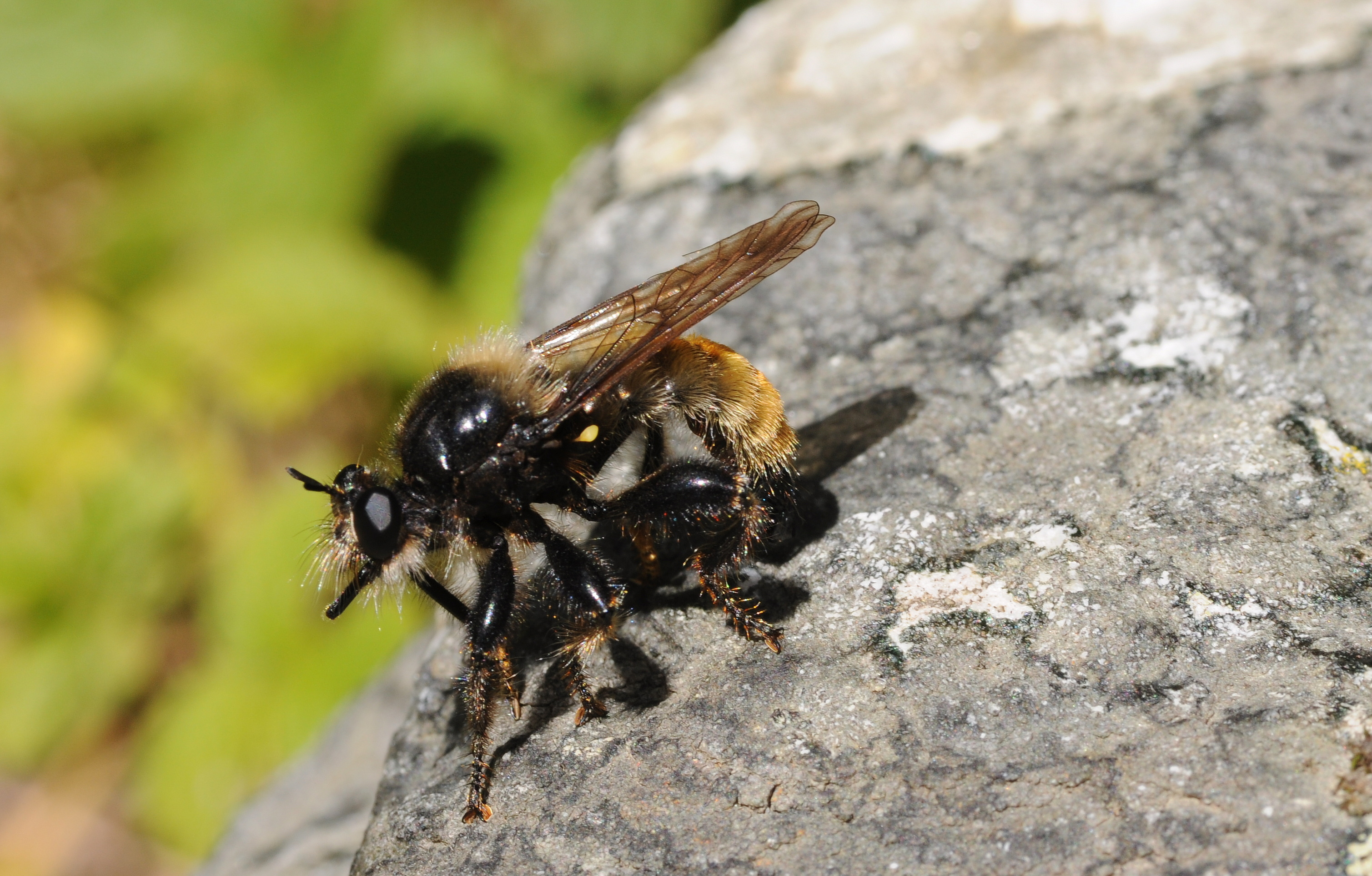 Laphria flava, spotted in the canton of Graubünden in Switzerland, beginning of September.